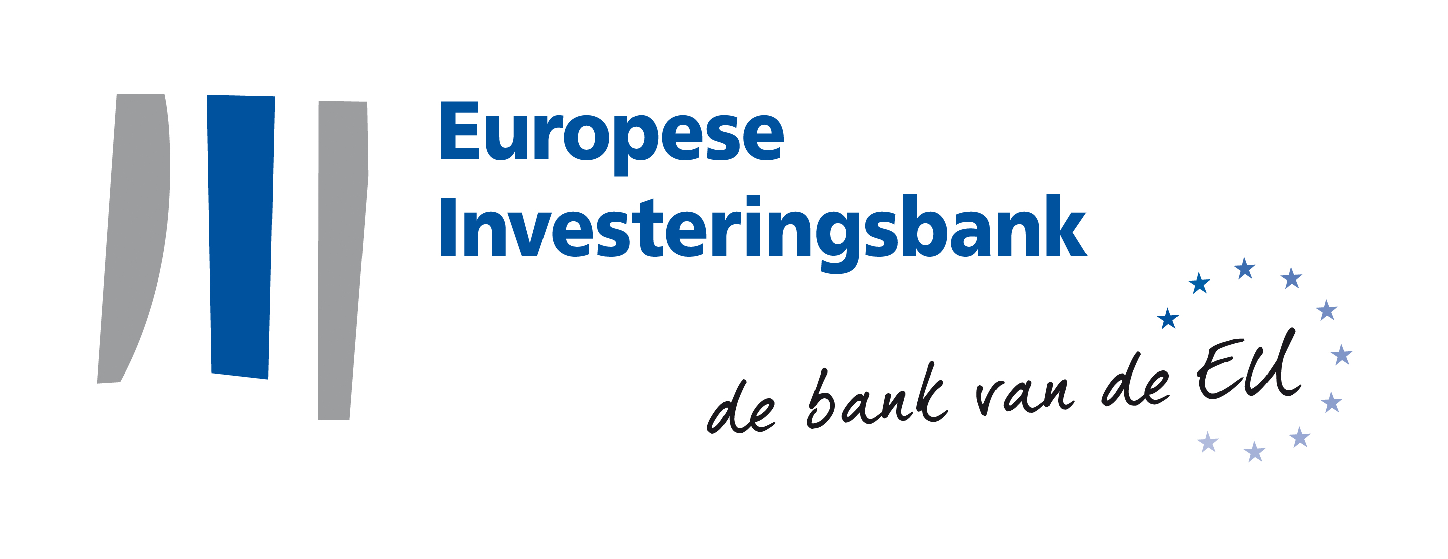 Logo EIB in dutch.